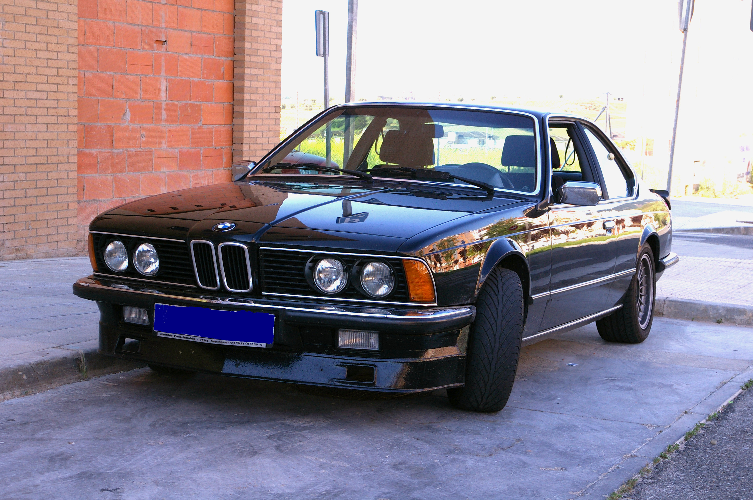 BMW ALPINA B7 Turbo Coupé / 1